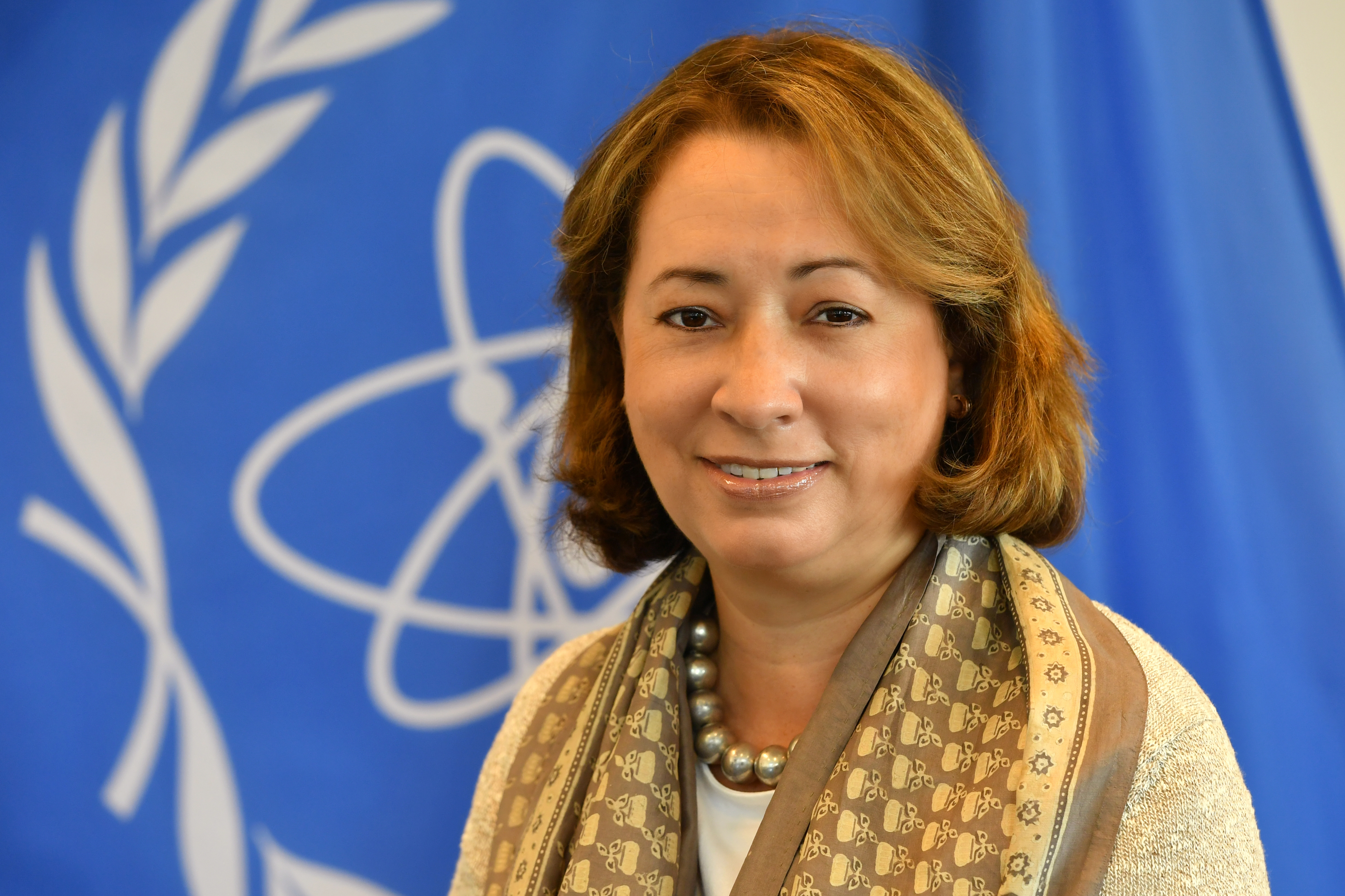 The General Conference elected Alicia Buenrostro Massieu of Mexico as President of the 63rd IAEA General Conference. IAEA Vienna, Austria. 16 September 2019 Photo Credit: Dean Calma / IAEA